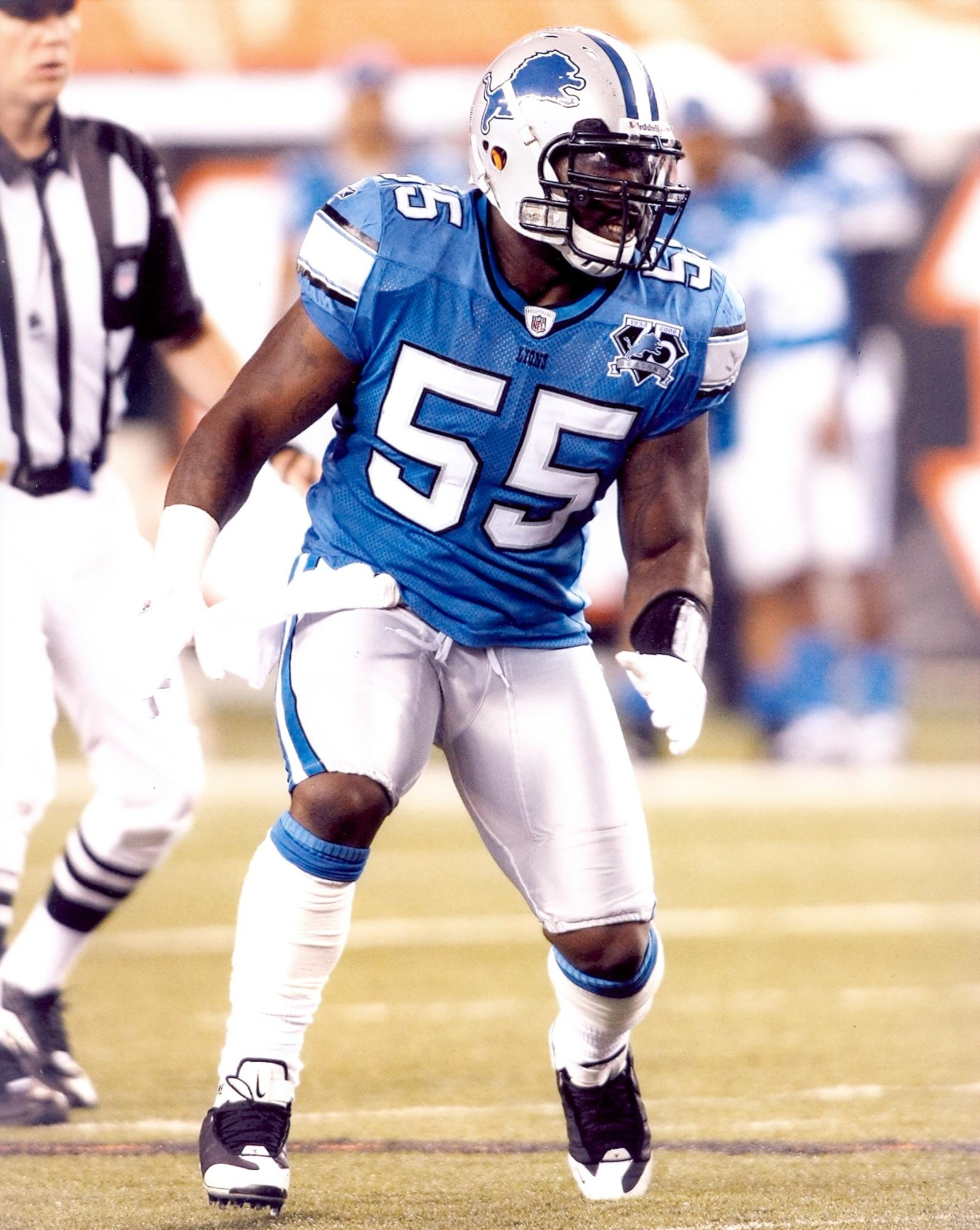 Buster Davis in the 2008 season during his tenure with the Detroit Lions